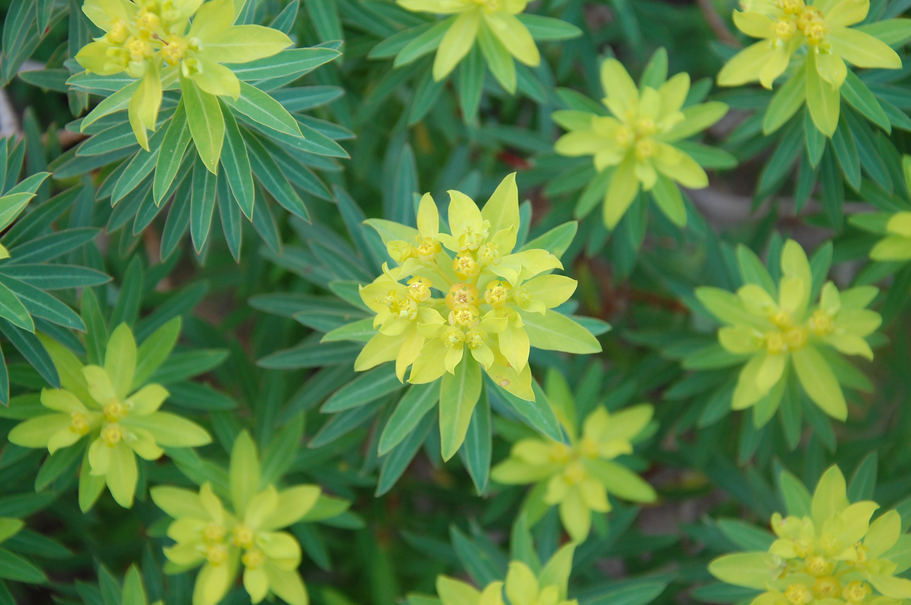 Euphorbia bivonae Zingaro, Sicily